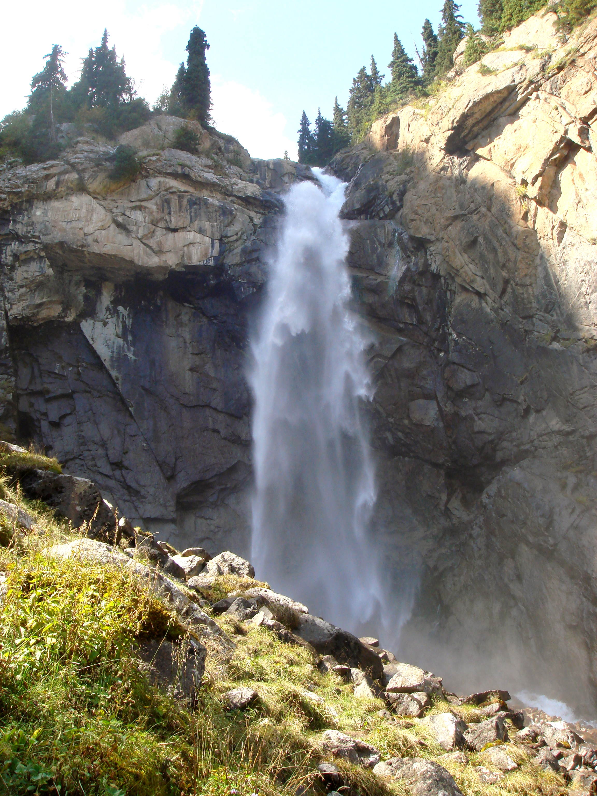 The Barskoön Waterfall (Issyk Kul Province, Kyrgyzstan).